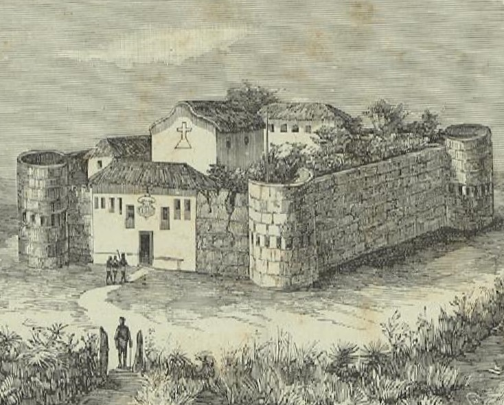 This eerie engraving of the fort of São João Baptista de Ajudá, Dahomey (now Benin) was published in the Portuguese magazine O Ocidente in 1886. With its high walls and gloomy aspect, it presents a somewhat imaginary view of the fort that does not correspond to 19th century descriptions by visitors and another more realistic engravings published in 1890. Le walls of the fort were about three meters high and made of mud mixed with clay.